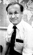 This is a picture of me requested by Chzz